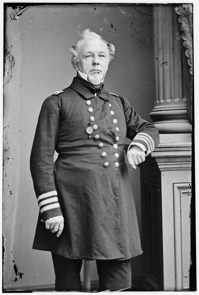 The image of US Navy Rear Admiral John Berrien Montgomery (1794–1872).